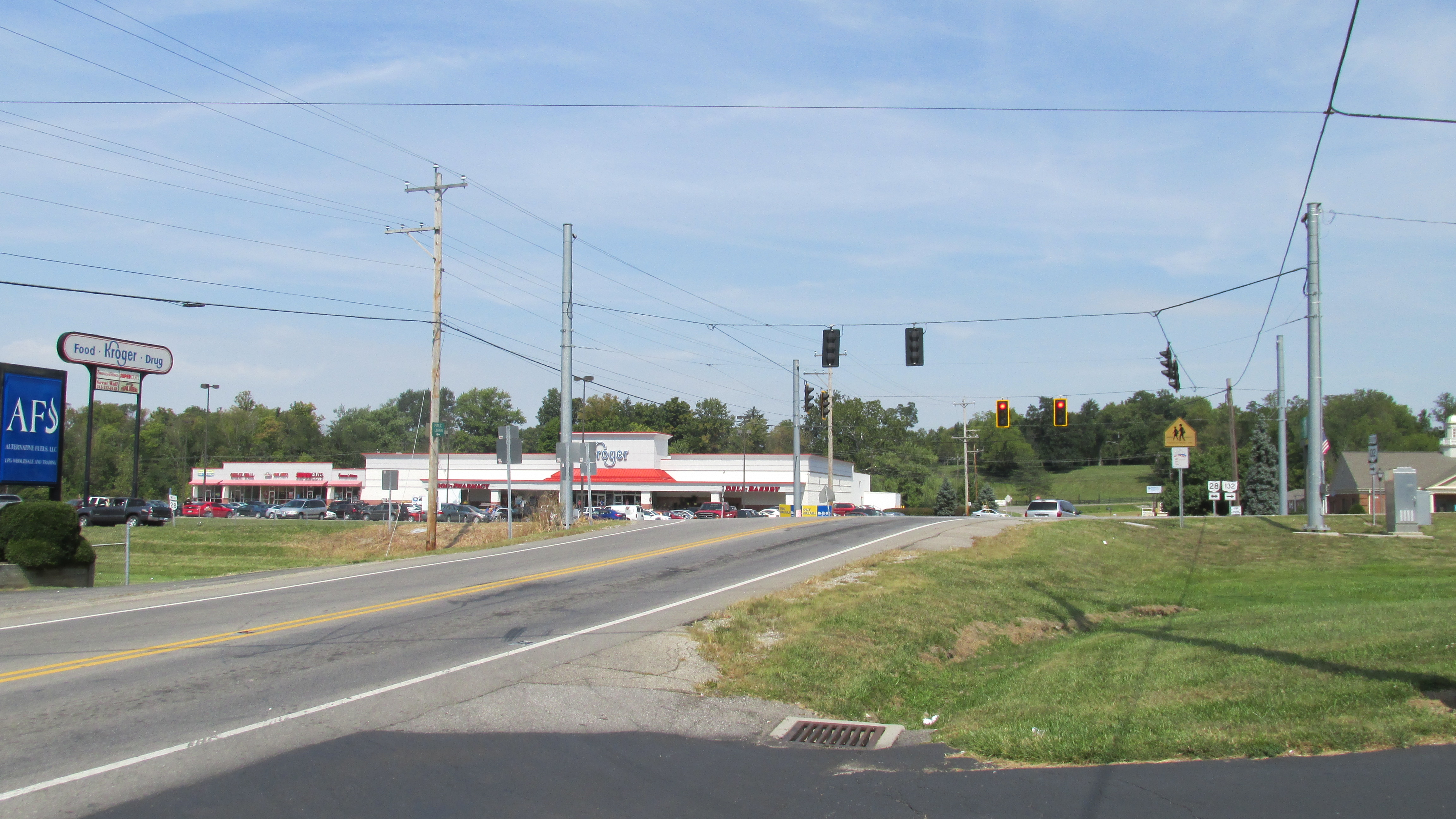 Looking north at the intersection of Ohio Highways 28 and 132 in Goshen, Ohio.